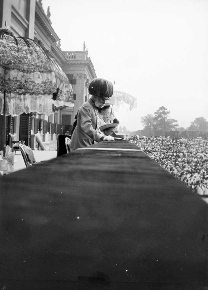 Emperor Franz Joseph on the balcony of Schönbrunn Palace on the occasion of his 60th Jubilee. Eighty-five-thousand children attended a festival in Schönbrunn in Honour of Emperor Franz Joseph on the 21st May 1908. The children gathered in the park of Schönbrunn to pay homage to the aged ruler who celebrated the sixtieth anniversary of his accession to the throne